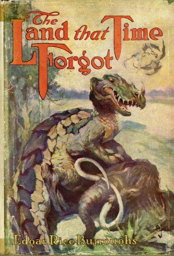 First edition of Edgar Rice Burrough's "The Land That Time Forgot", 1924. Copies with no alterations to public domain content are ineligible for copyright.